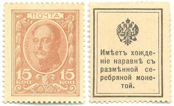 Stamp money of Russia, 1915